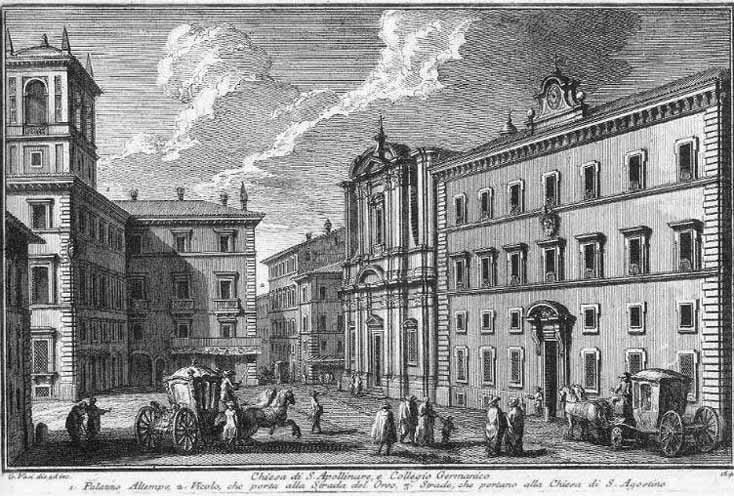 1) Palazzo Altemps; 2) Street leading to Strada dell'Orso; 3) Street leading to S. Agostino